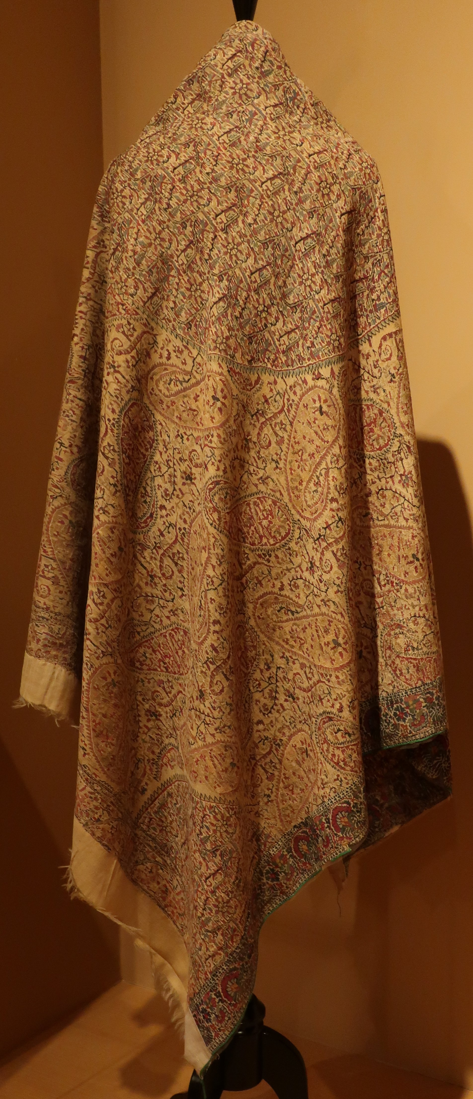 Kanikar shawl, India, Kashmir, early 19th century, Pashmina wool, 2/2 twill tapestry, Honolulu Museum of Art, accession 2831